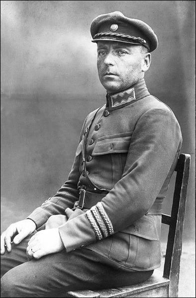 Hnat Stefaniv Ukr. Гнат Стефанів (1885-1949) Ukrainian military, Colonel of Ukrainian Galician Army and Army of Ukrainian People’s Republic (1918-1920)